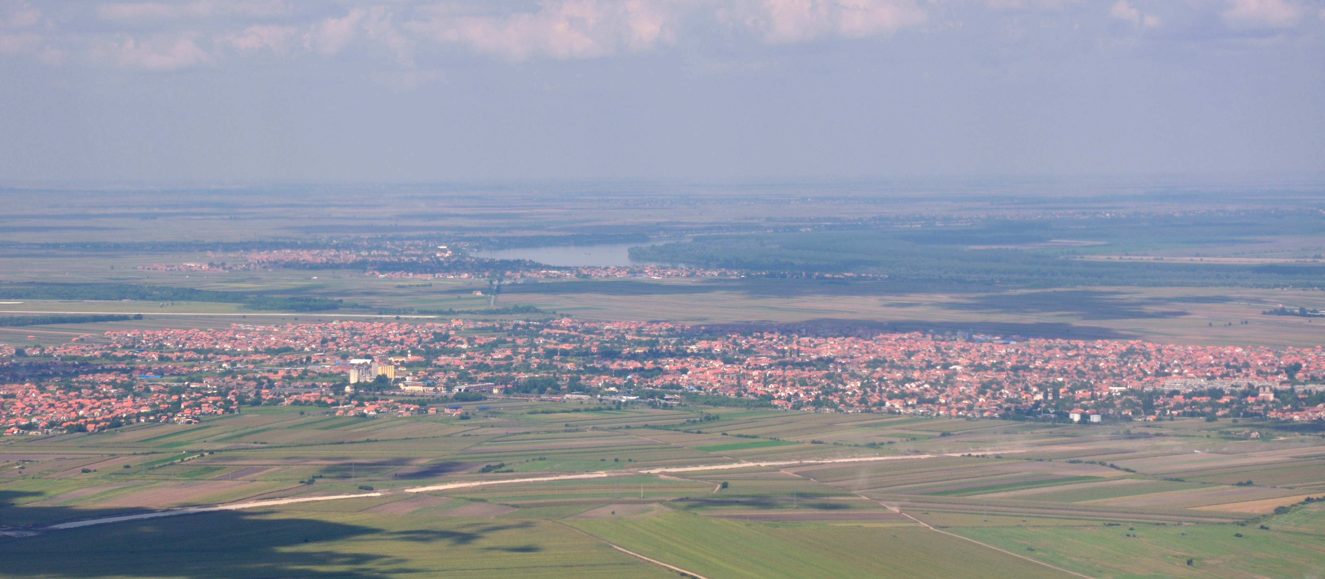 Serbia, aerial photograph after take-off in Belgrade.